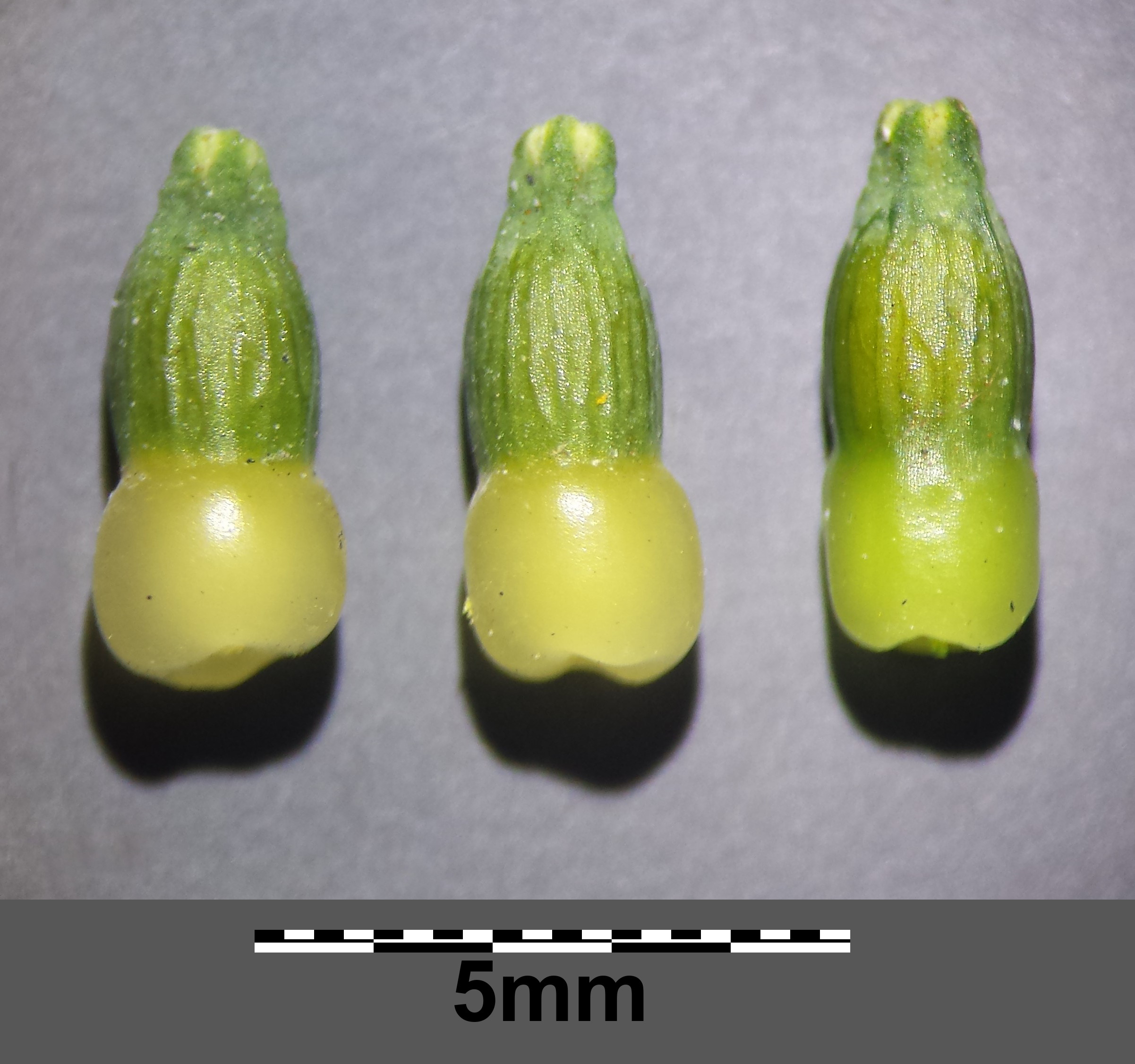 Fruits with elaiosome Taxonym: Thesium ramosum ss Fischer et al. EfÖLS 2008 ISBN 978-3-85474-187-9 Location: Freudenauer Hafenstraße, Vienna-Leopoldstadt - ca. 150 m a.s.l. Habitat: dry, ruderal slope